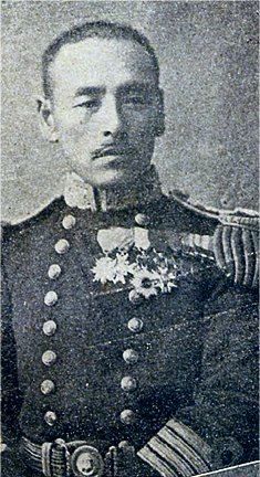 Admiral Murakami Kakuiti (1899)